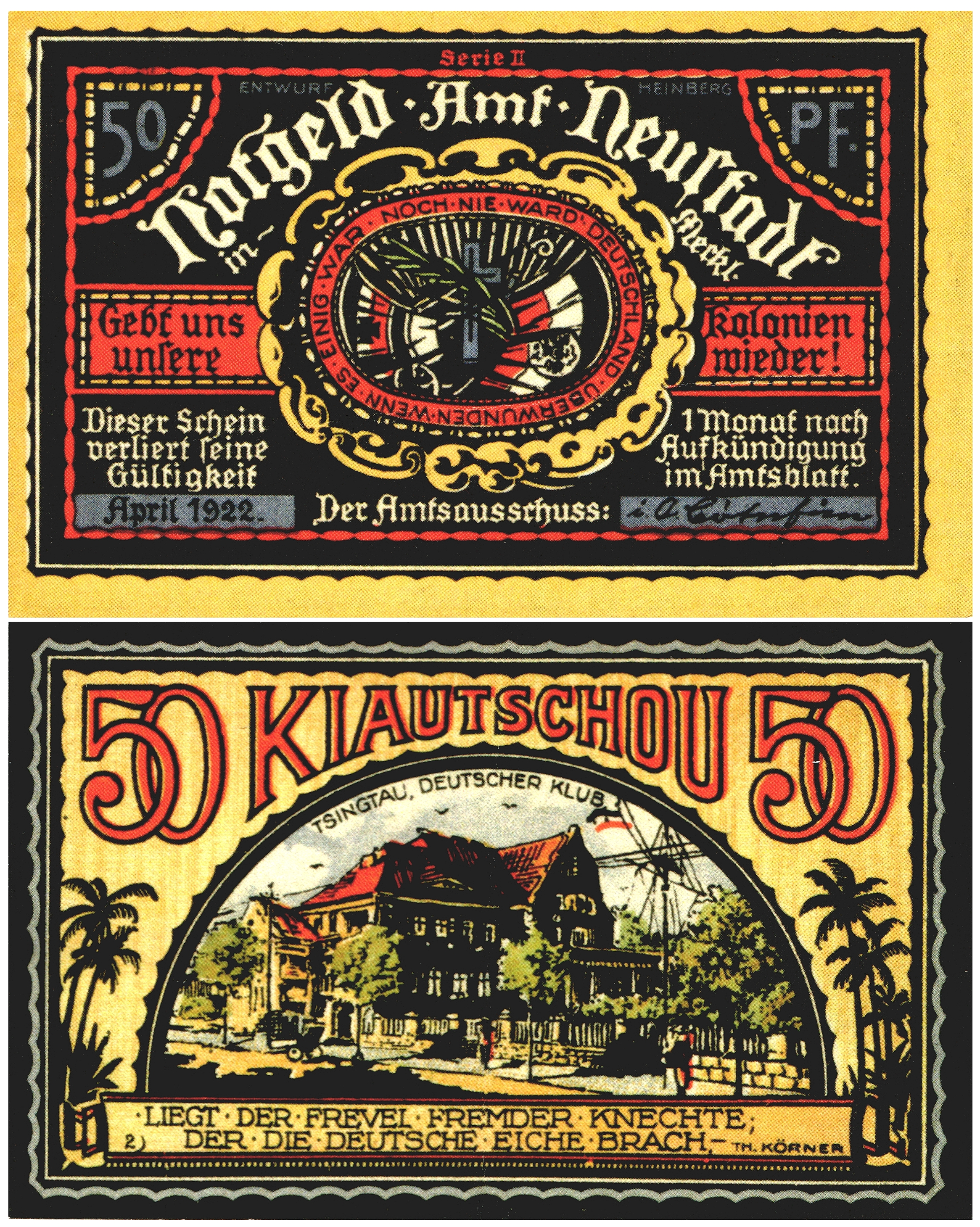 50 Pfennig "Notgeld" banknote (1922) of Neustadt in Mecklenburg, today Neustadt-Glewe. The text coplains about the loss of the colony Kiautschou after the Treaty of Versailles. Size: 61 mm x 97 mm.